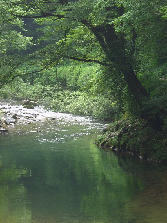 Limpid waters of a mountain brook. This is popular mountain stream Japan. Dainichi-gawa in Komatsu city.